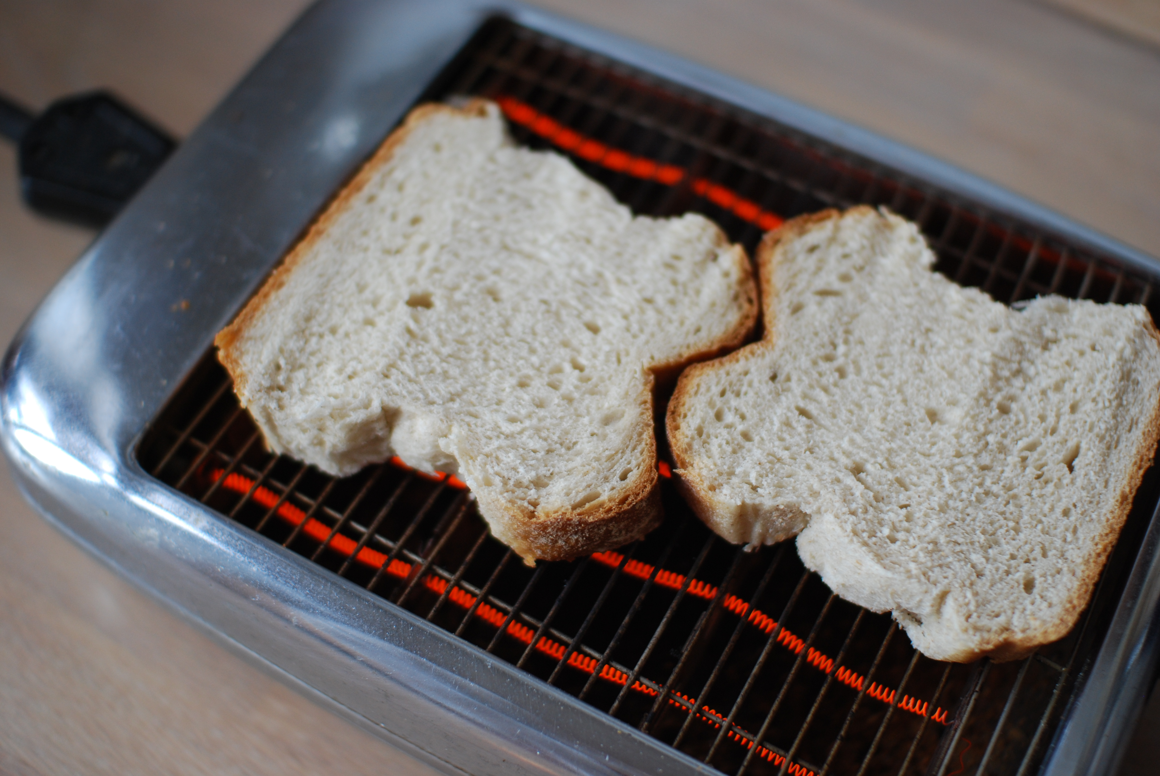 Toaster